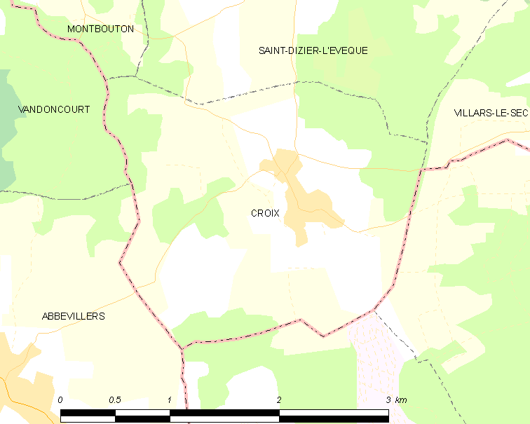 Map of French municipality Croix